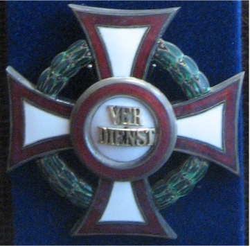 The austrian Military Merit Cross 1.Class with war decorations